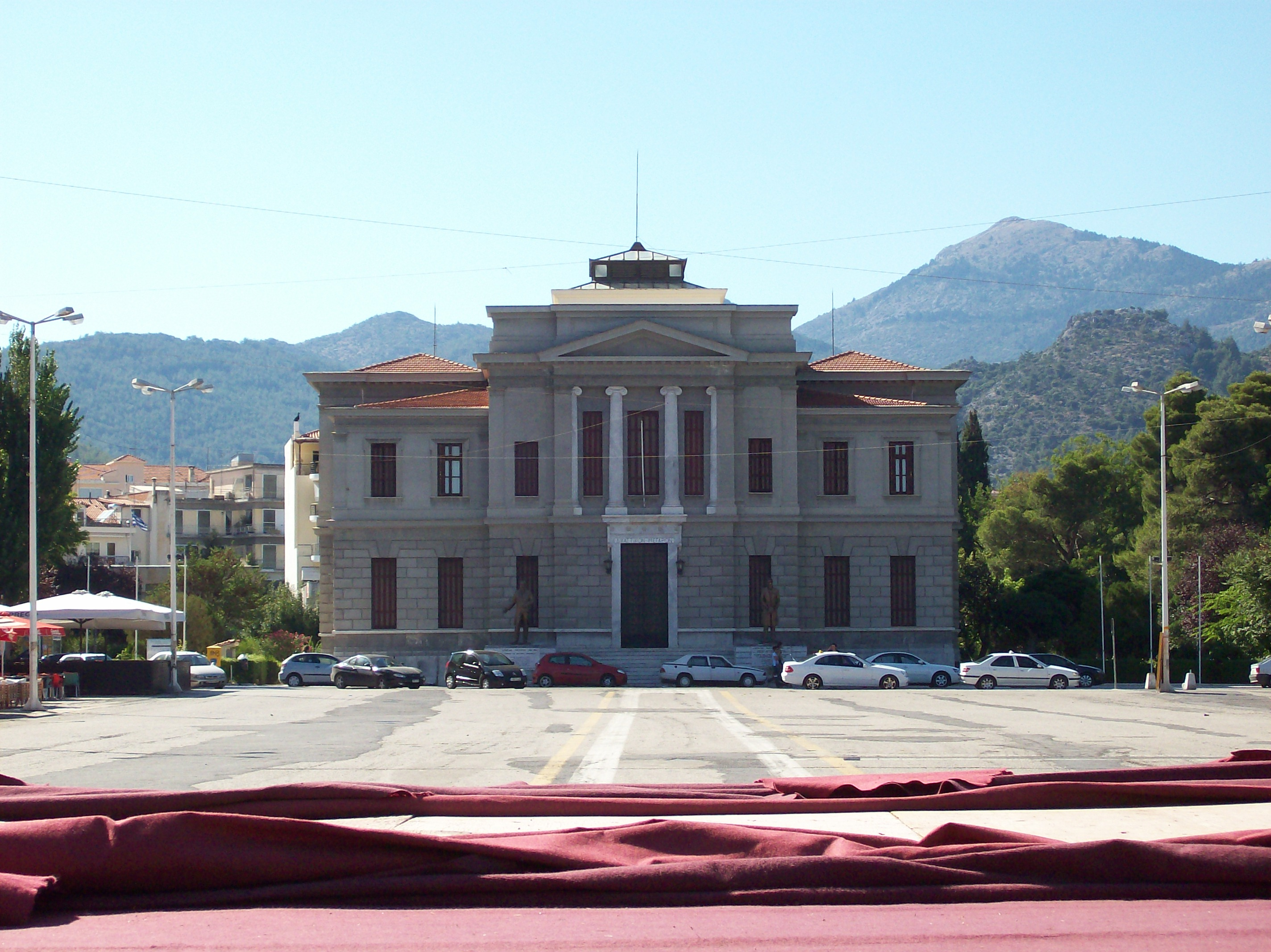 The Court House in Tripolis, desgined by German Architect Ernst Ziller.